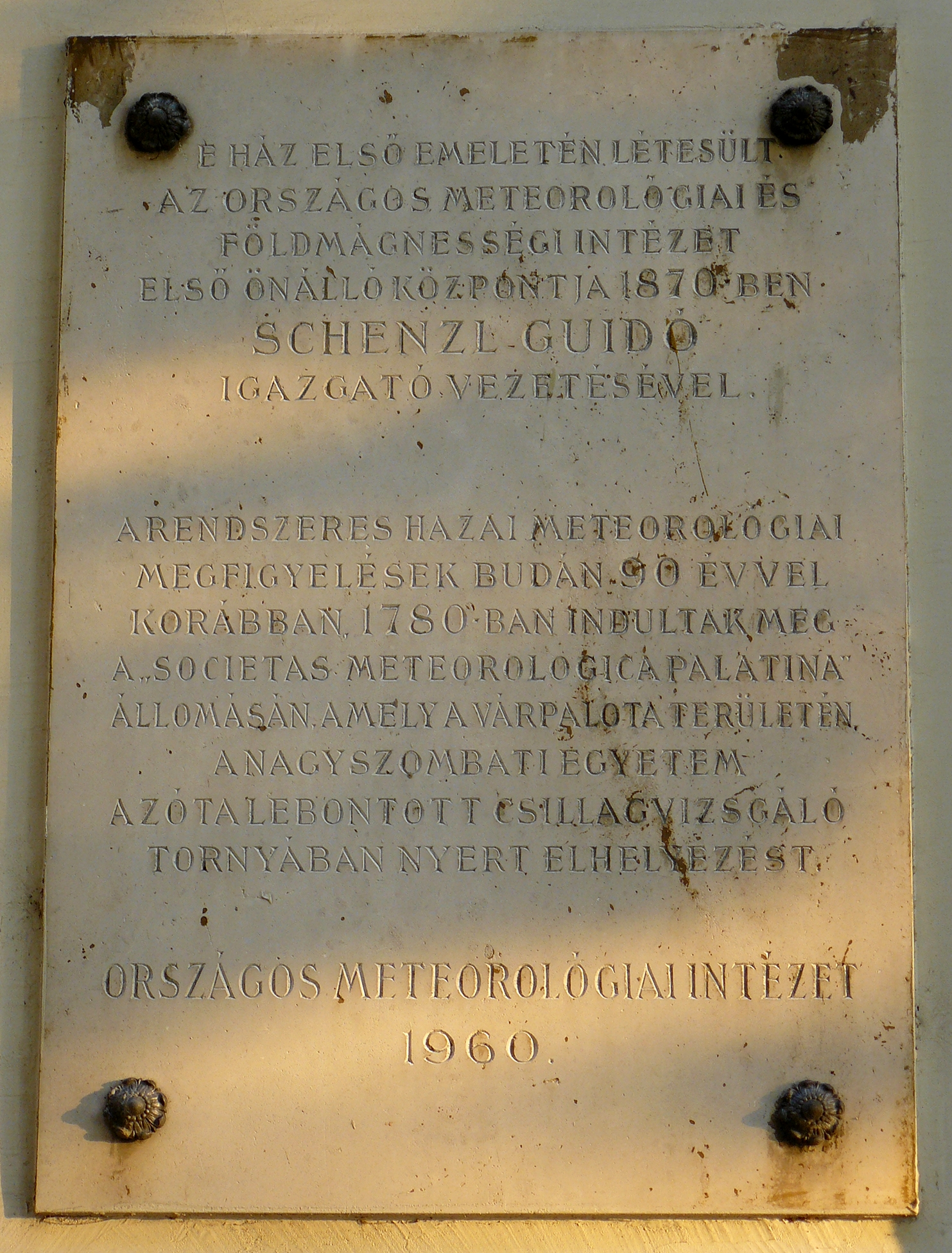 Memorial plaque of Schenzl Guido at the National Institute of Meteorology and Magnetism at the Buda Castle, Móra Ferenc utca 2 / b., Árpád Tóth promenade, 12.